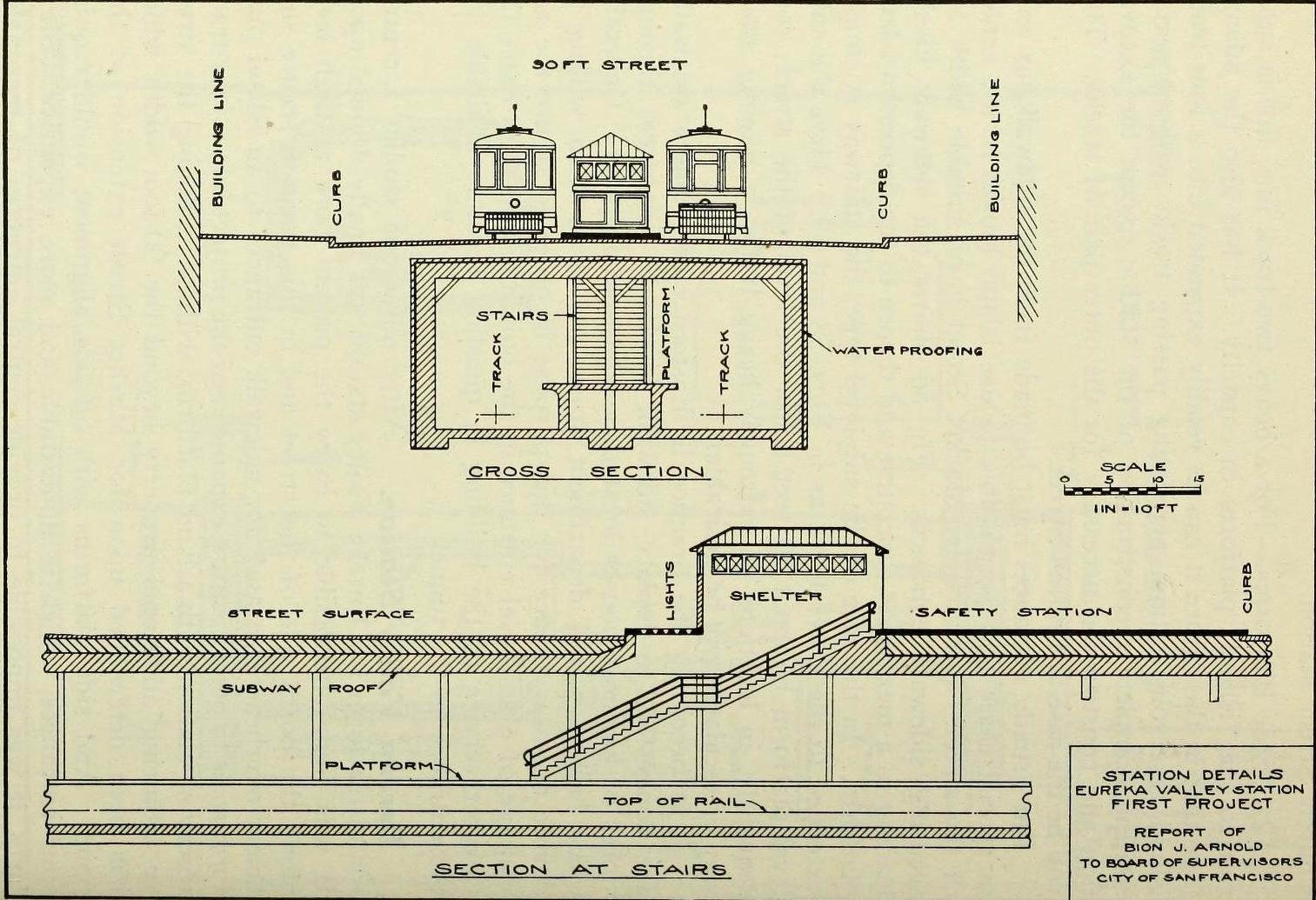 Figure 60 - Eureka Valley station, high level project. Island platform, center entrances, in Market Street contour extension, with provision for future reservoiring to four tracks to accommodate Mission-Sunset traffic.